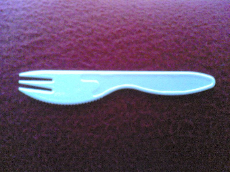 A knork is a hybrid form of cutlery which combines the cutting capability of a knife and the spearing capability of a fork into a single utensil. The word knork is a portmanteau of knife and fork.